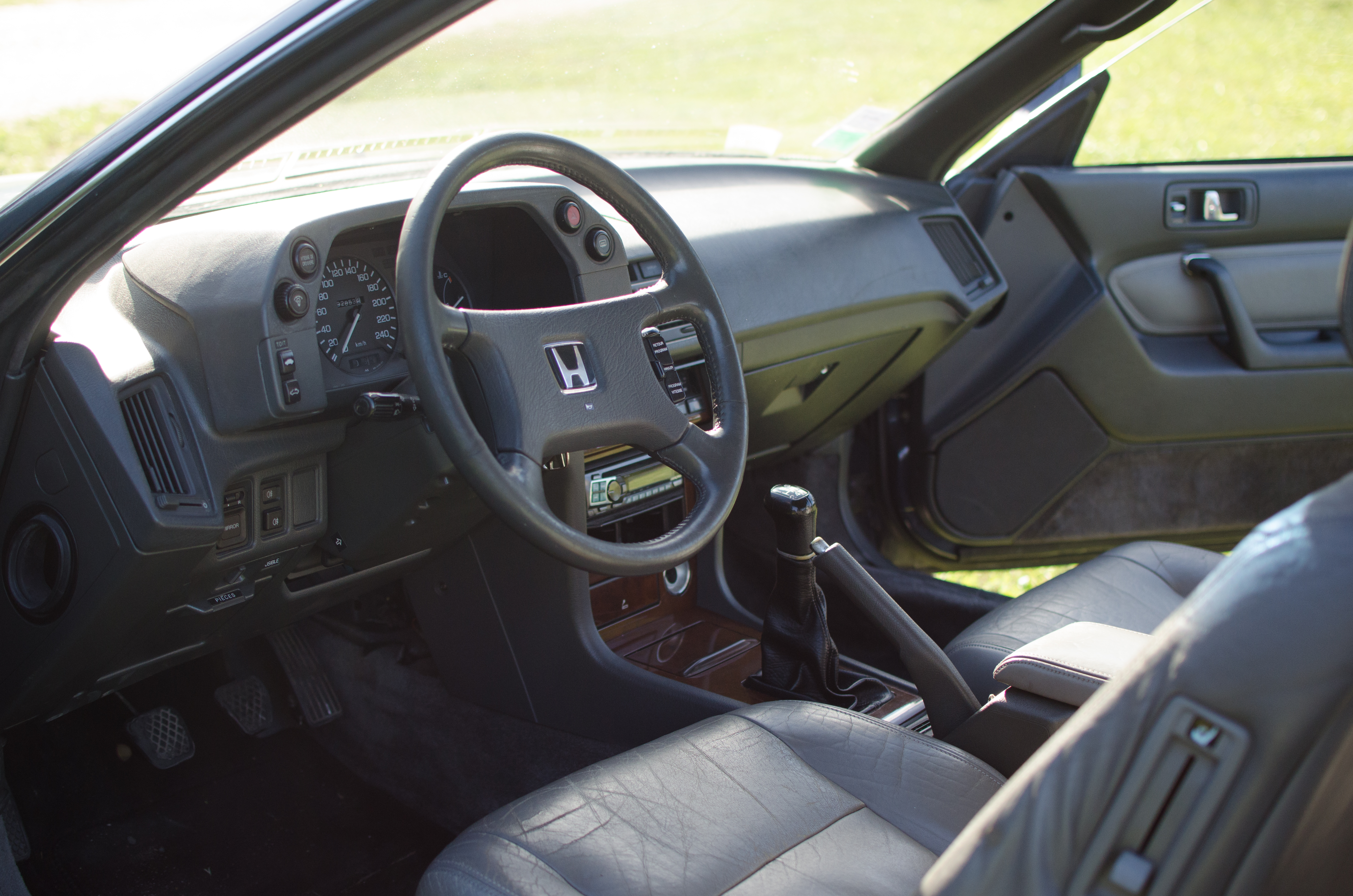 Blue Honda Legend coupé 1990 Interior from the left